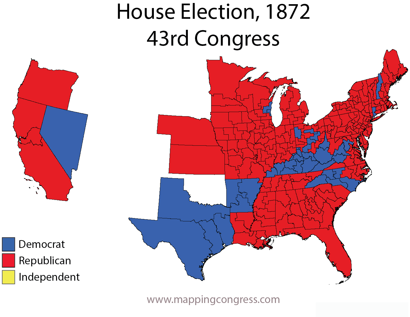 Map of U.S. House elections results from 1872 elections for 43rd Congress